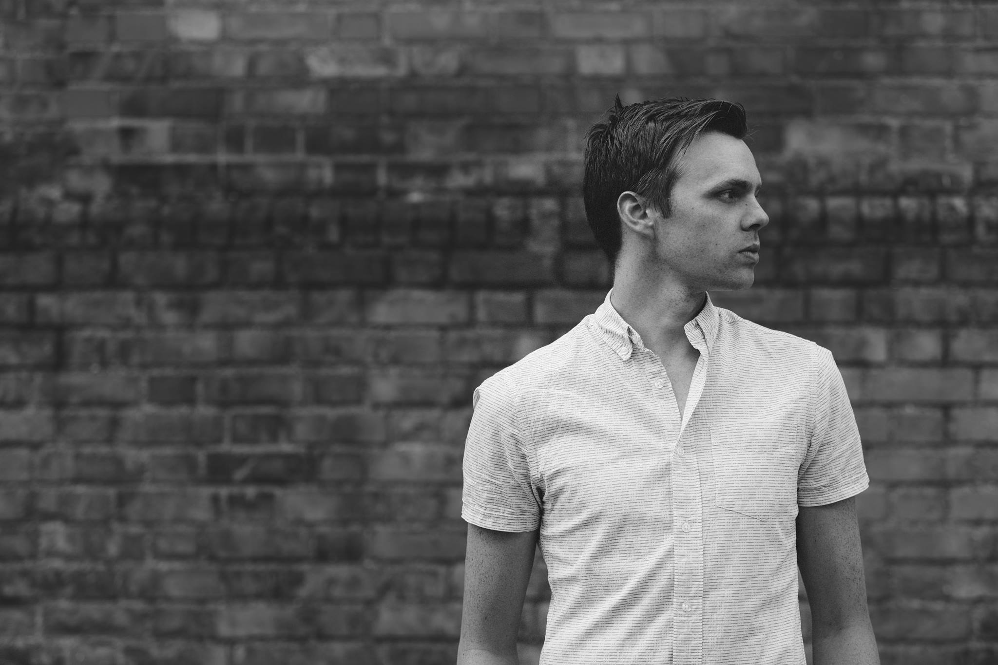 Photo Credit: Steven Weldon